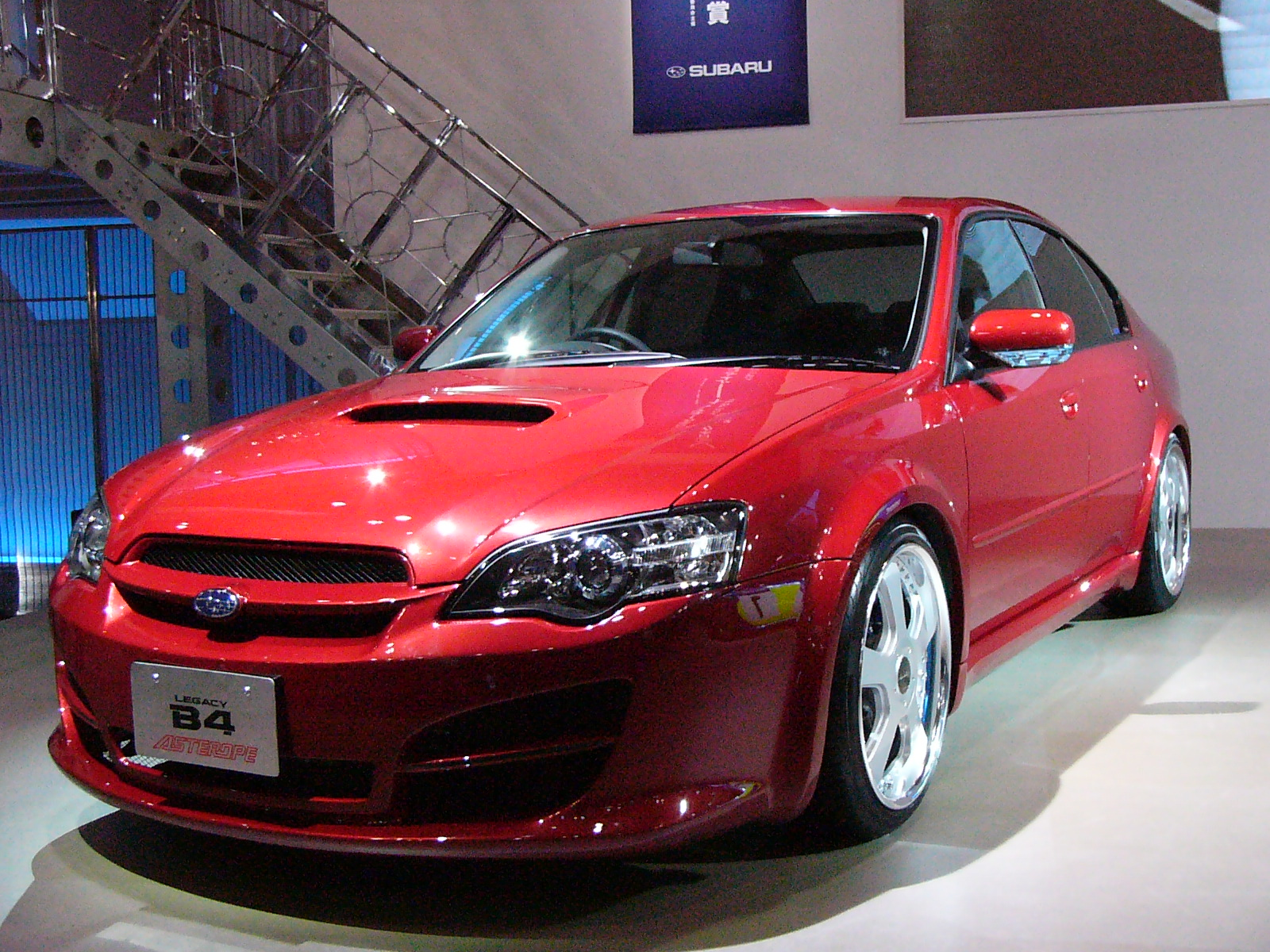 LEGACY B4 ASTEROPE AUTO SALON CONCEPT by Subaru Customize Kobo Corporation in Tokyo Auto Salon 2004